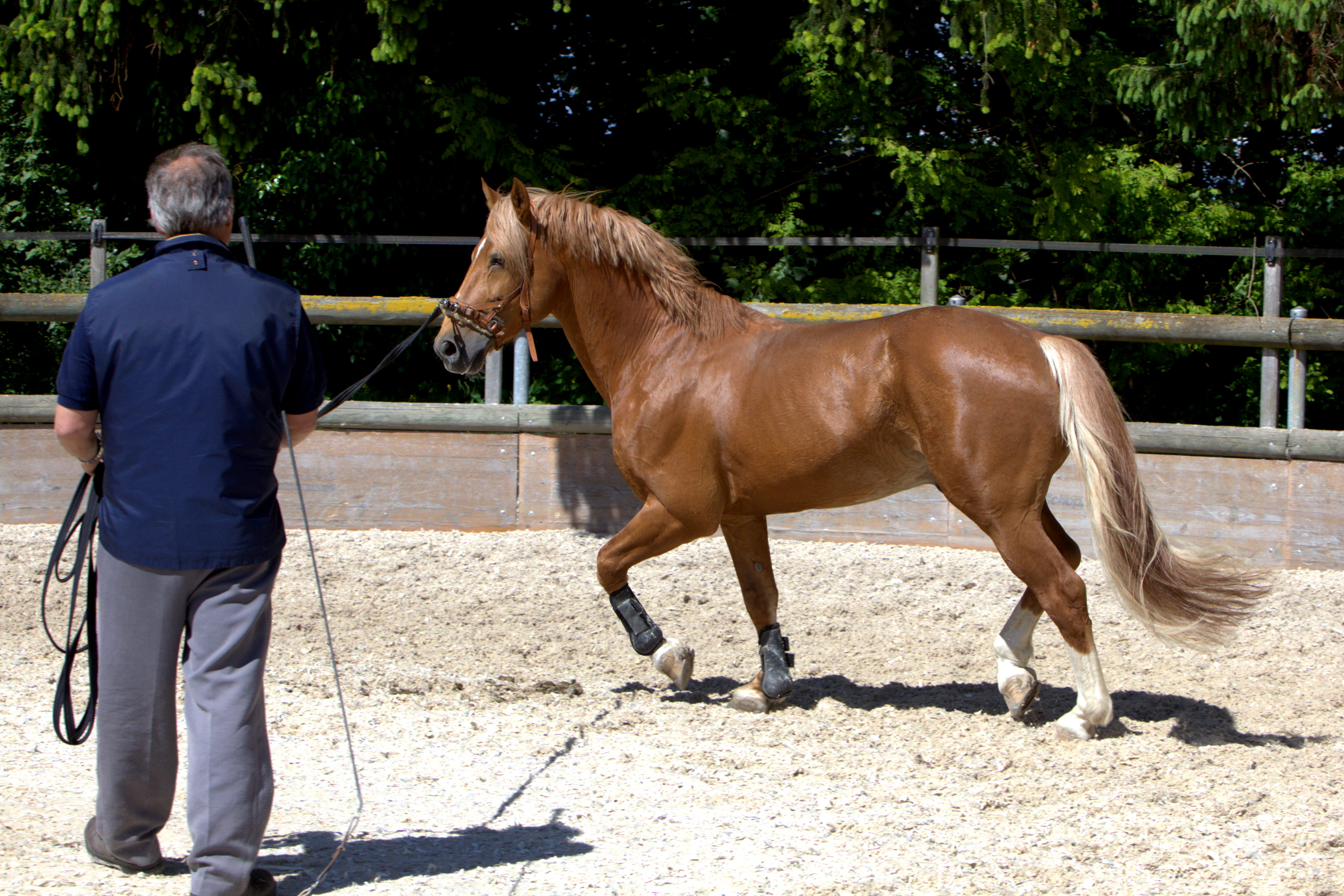 Swiss national stud far, Avenches The making of this document was supported by Wikimedia CH. (Submit your project!) For all the files concerned, please see the category Supported by Wikimedia CH.